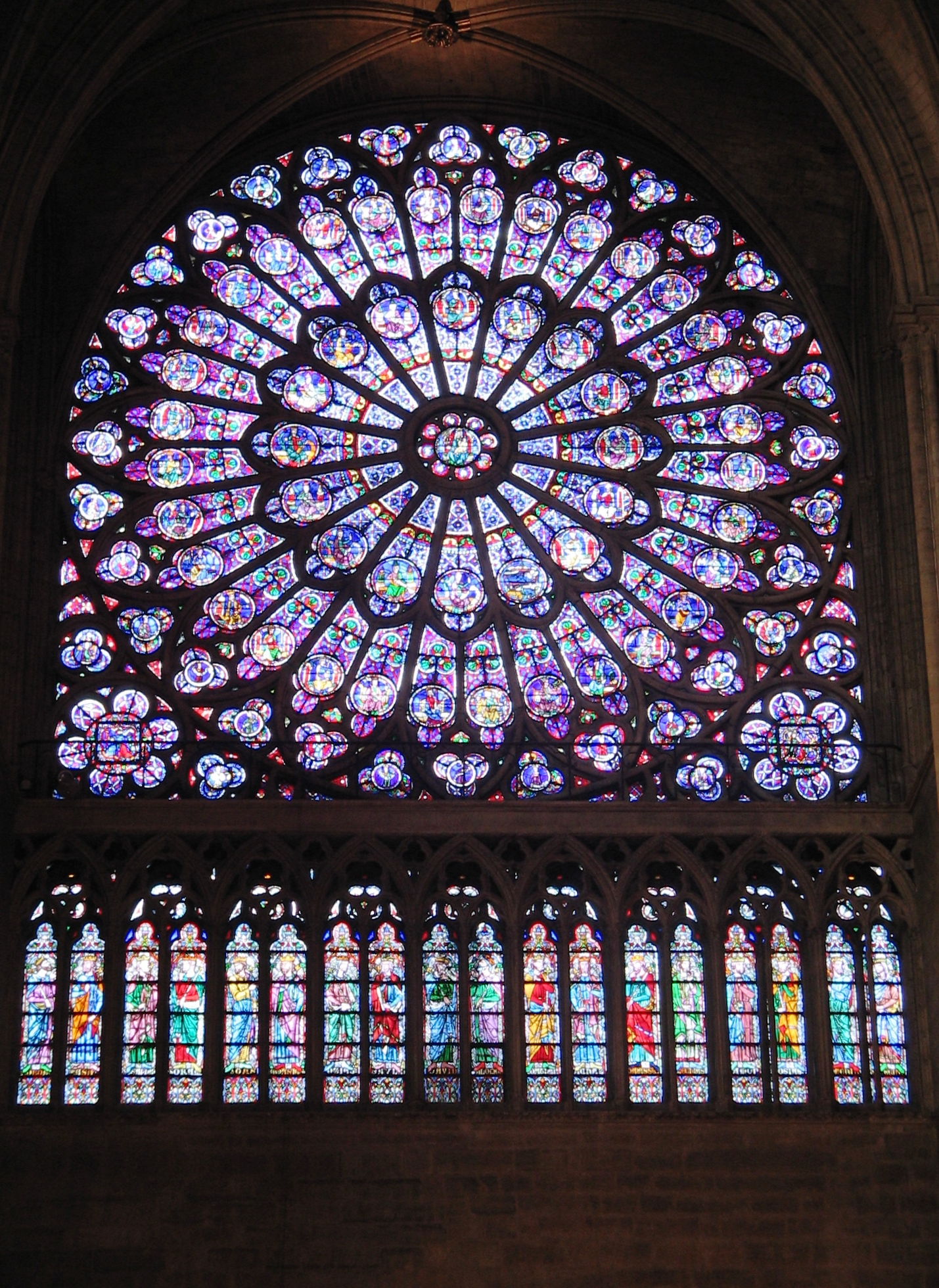 The north rose window in the Notre Dame cathedral in Paris, viewed from the inside.